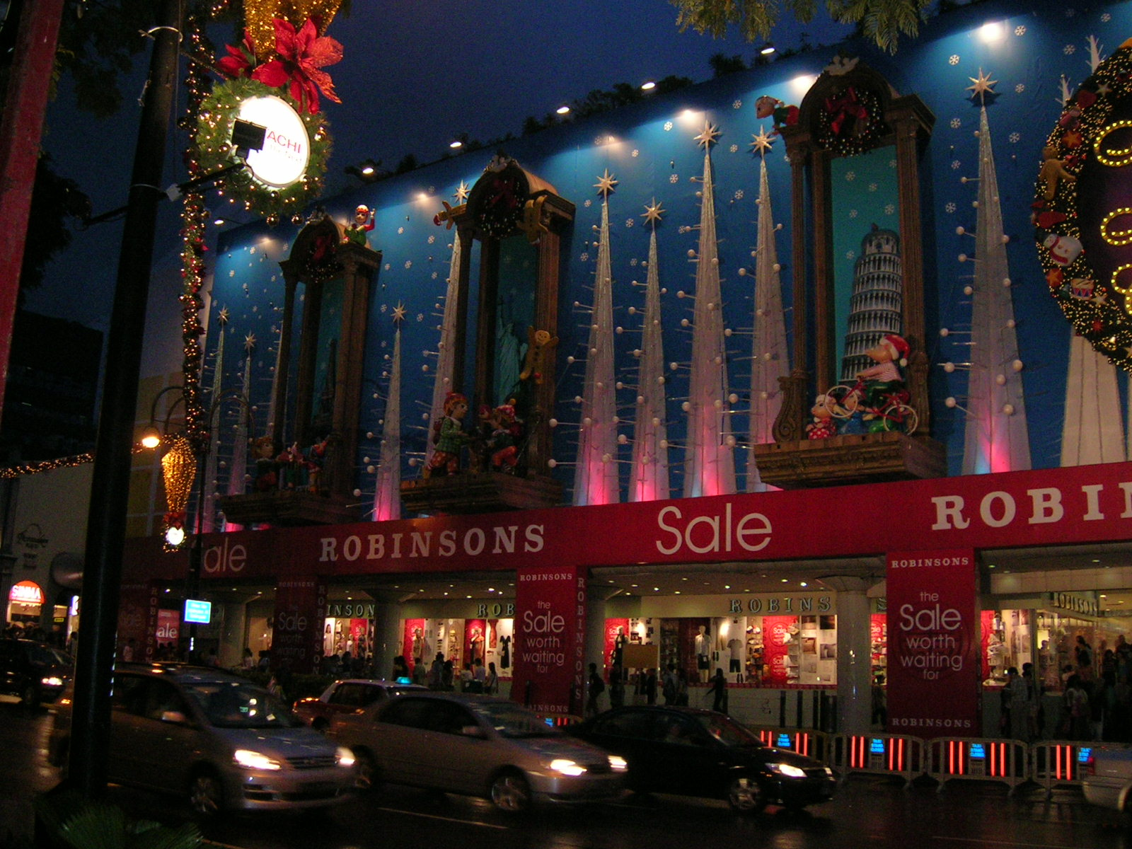 Centrepoint Shopping Centre on Orchard Road, Singapore, during the Christmas season.